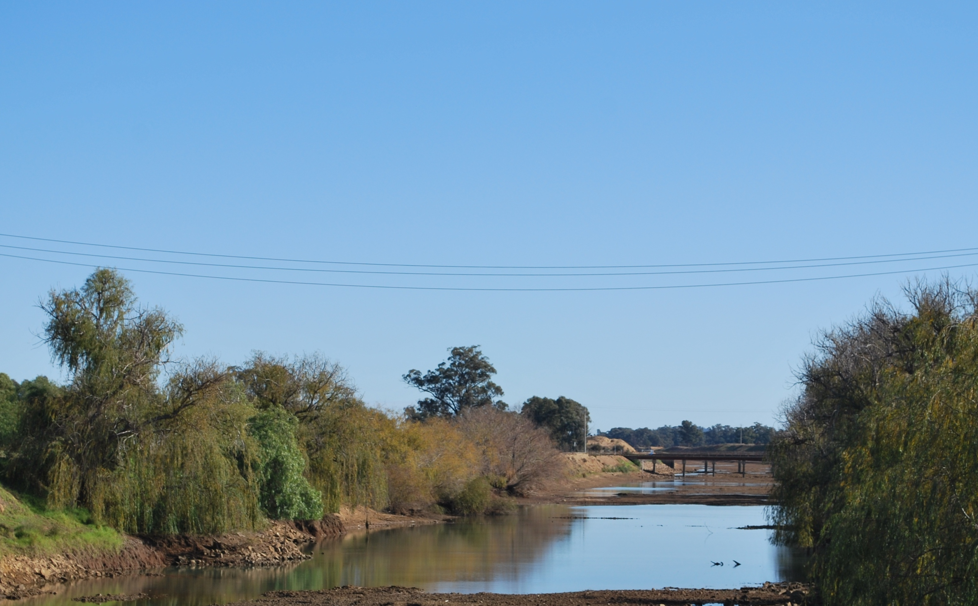 The Mulwala Canal near its intake on Lake Mulwala in Mulwala, New South Wales. The canal is closed as it is the off-season for irrigation.